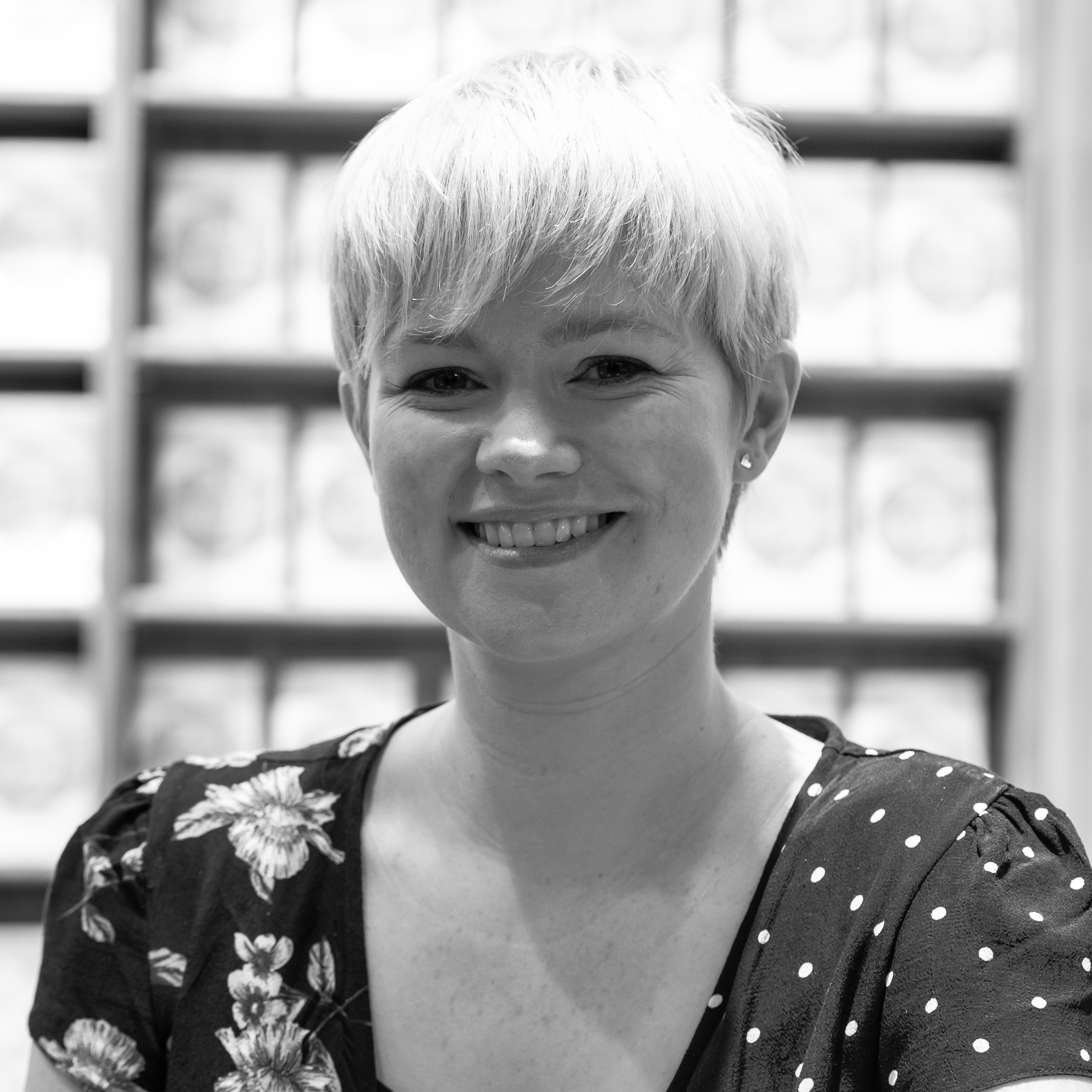 Author Cecilia Ahern at the Frankfurt Book Fair 2018